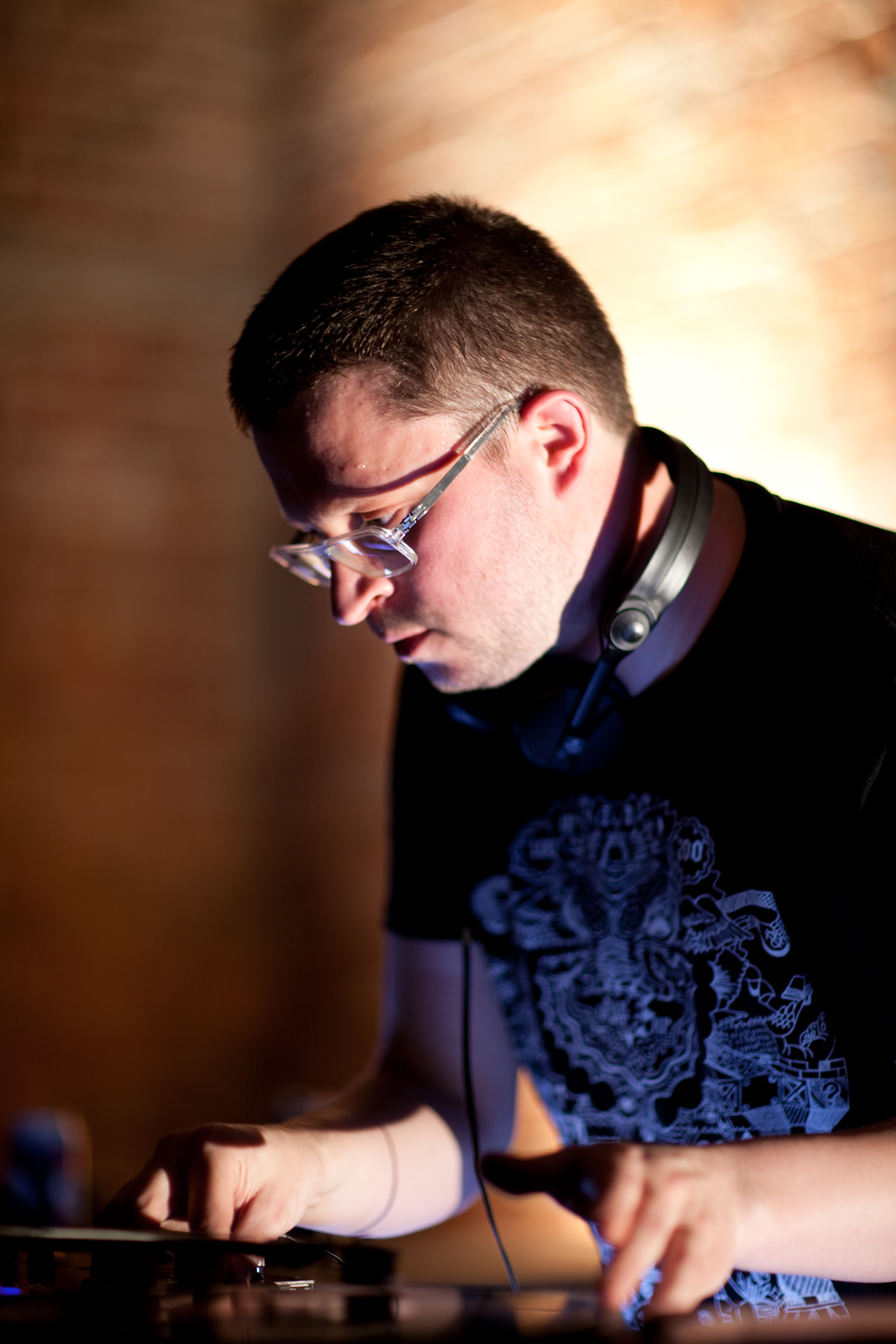 Harmonic 313, Mark Pritchard (music producer).